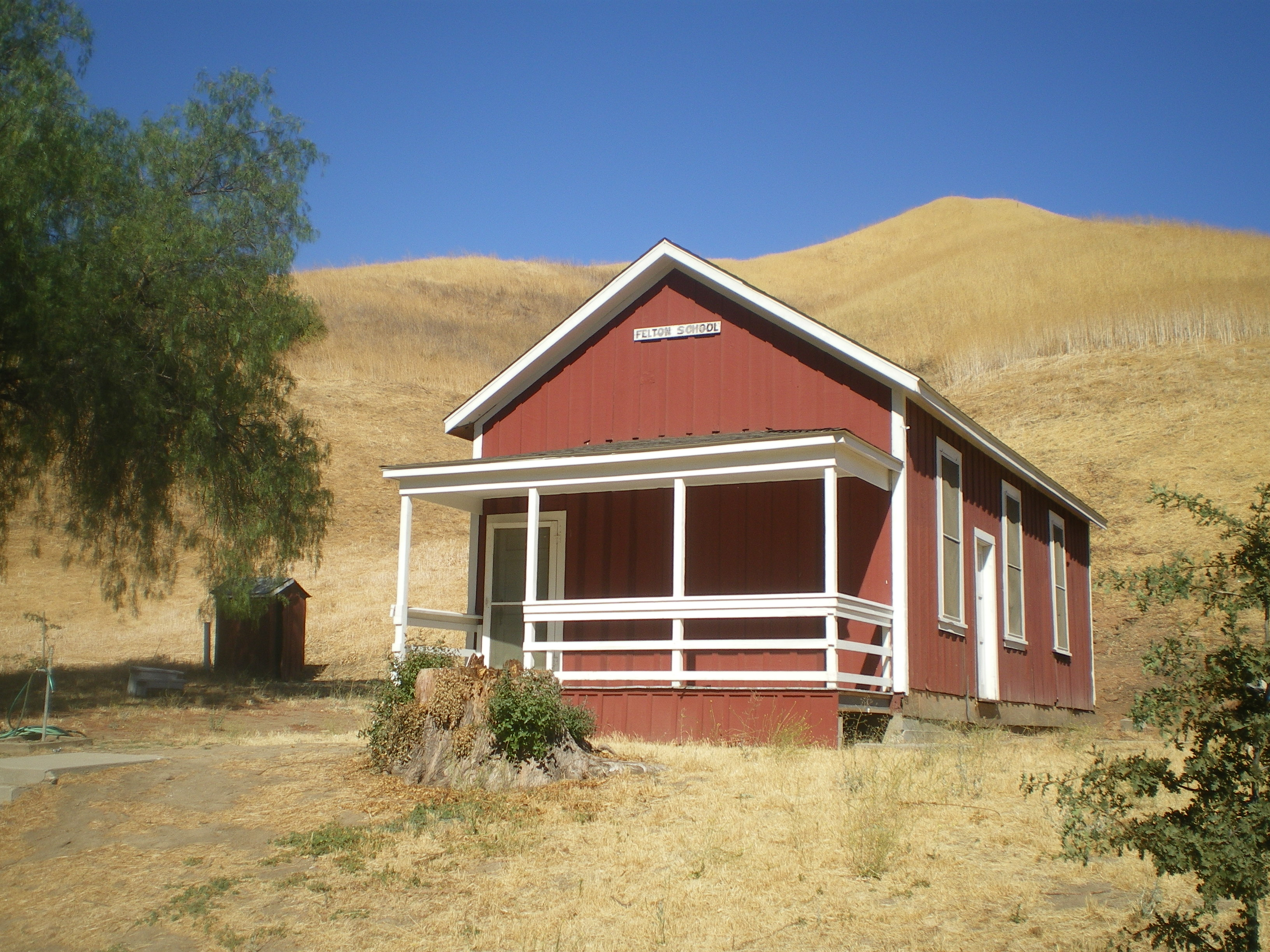 Felton Schoohouse, Mentryville, Santa Susana Mountains - California